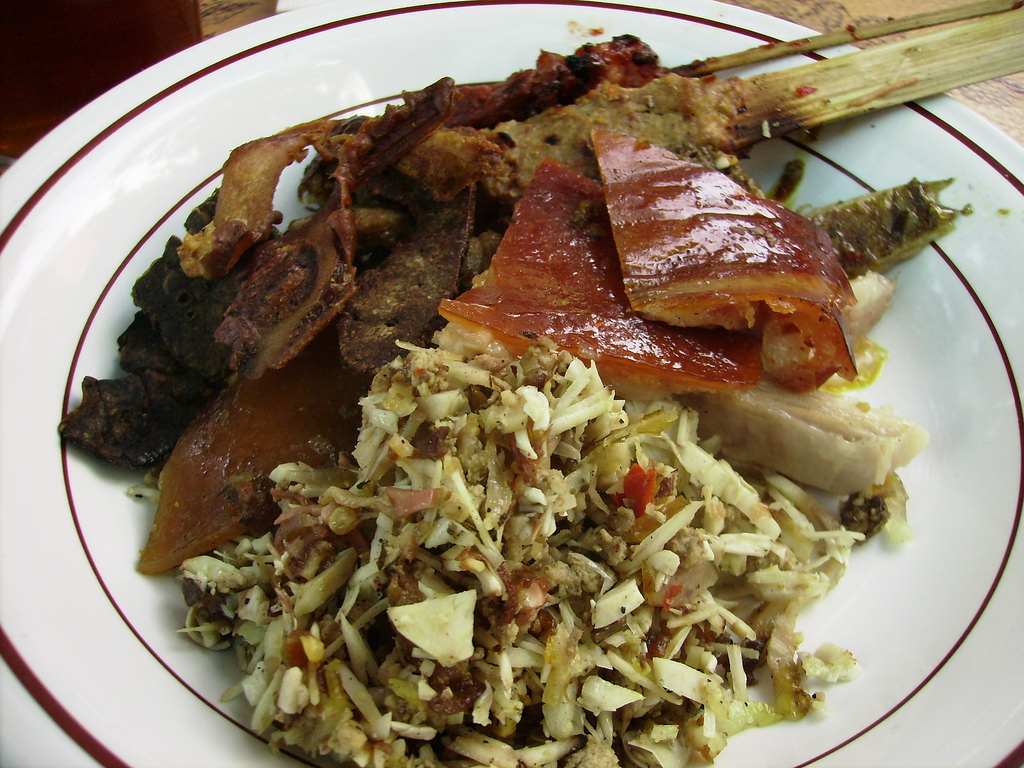 Lawar (mixed vegetables) and Babi Guling (roasted suckling pig), cuisine of Bali